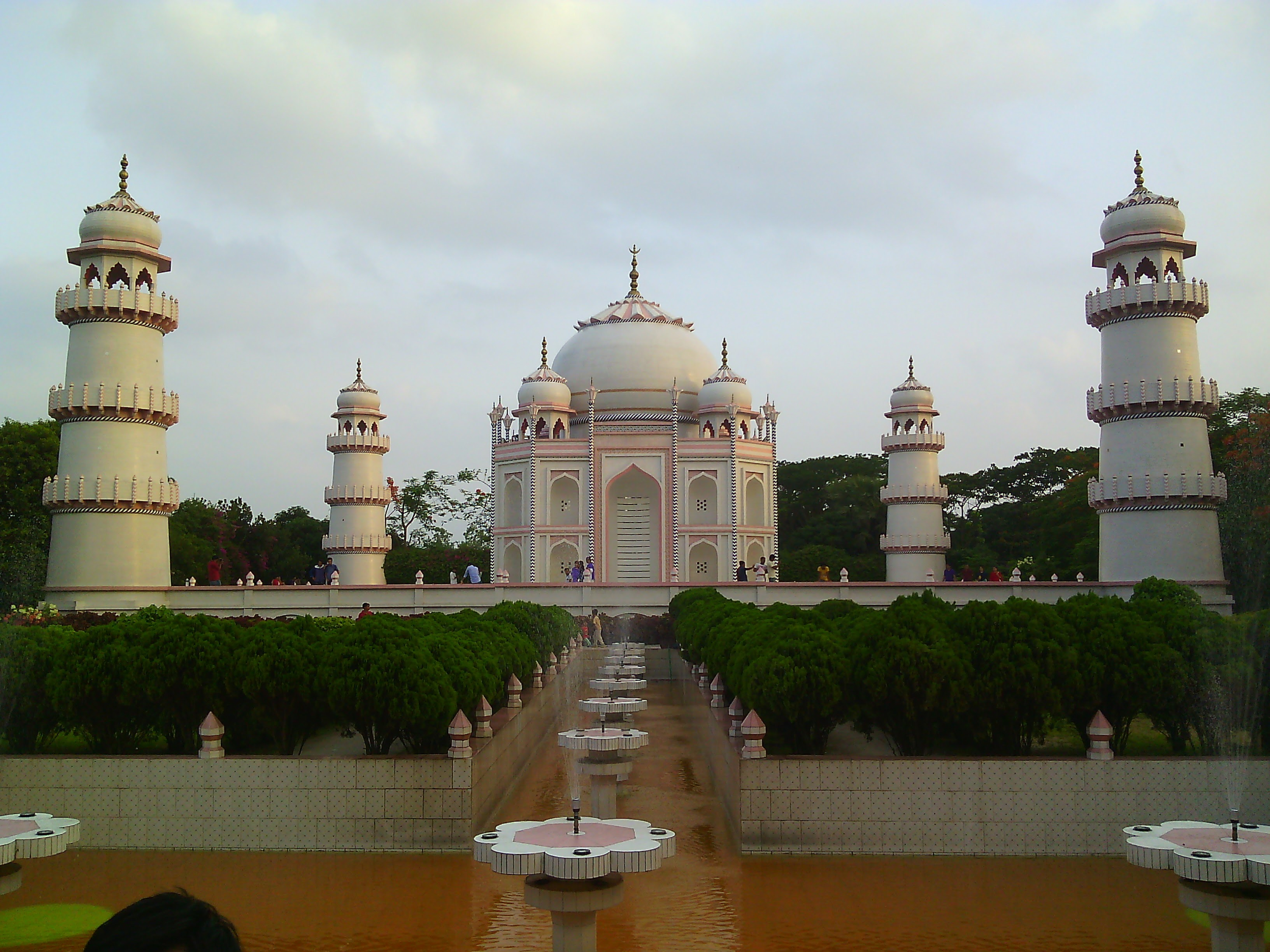 Taj mohal in Bangladesh.